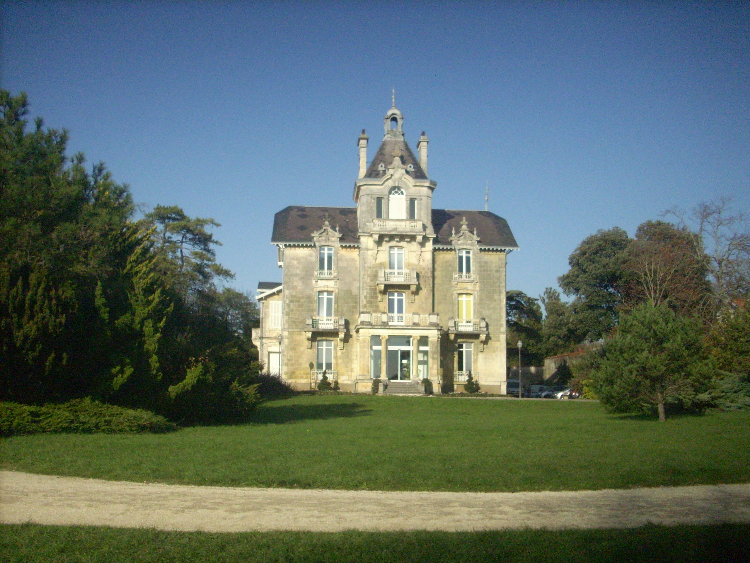 villa Fort Louis, Parc Franck Delmas, La Rochelle, France. November 16, 2012